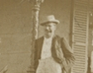 James George Warden, resident of Bellevue, Glebe Point, Sydney from 1898 to 1903